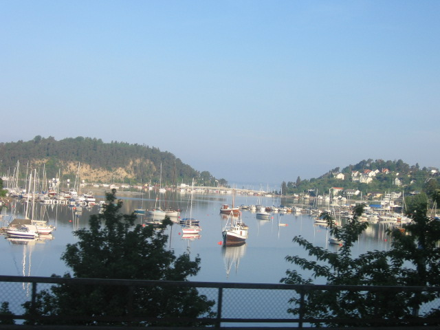 Oslo Fjord, summer 2006. by Stephen Bell.